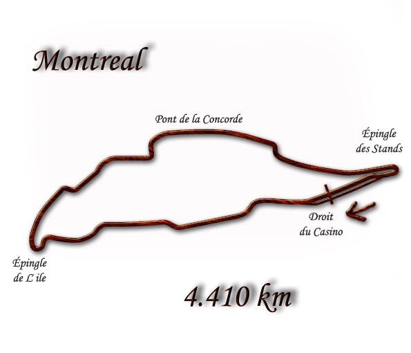 Diagram of the Circuit Gilles Villeneuve in Montreal following changes made in 1979. Used for Canada Grands Prix from 1979 to 1981.